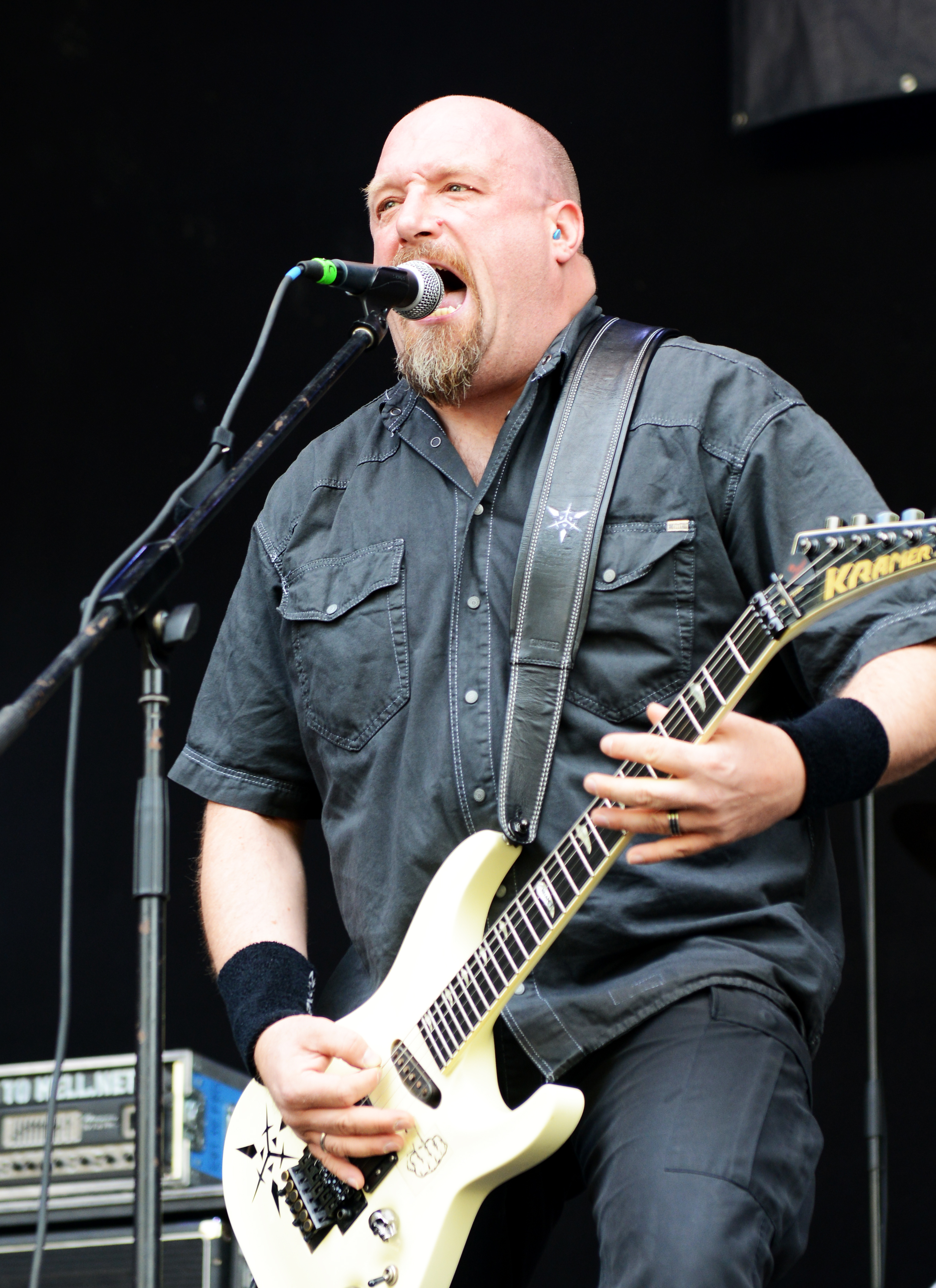 Contradiction at Turock Open Air 2014 in Essen, Germany